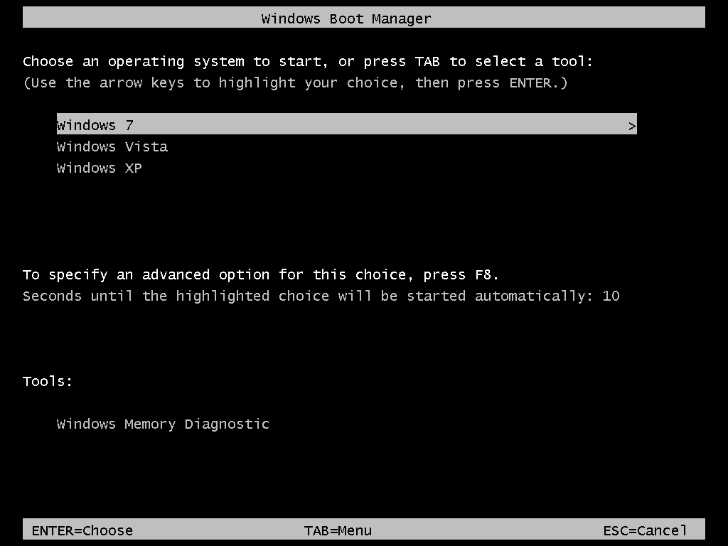 Windows Boot Manager with Windows 7 highlighted, Windows XP and Vista are also options available.